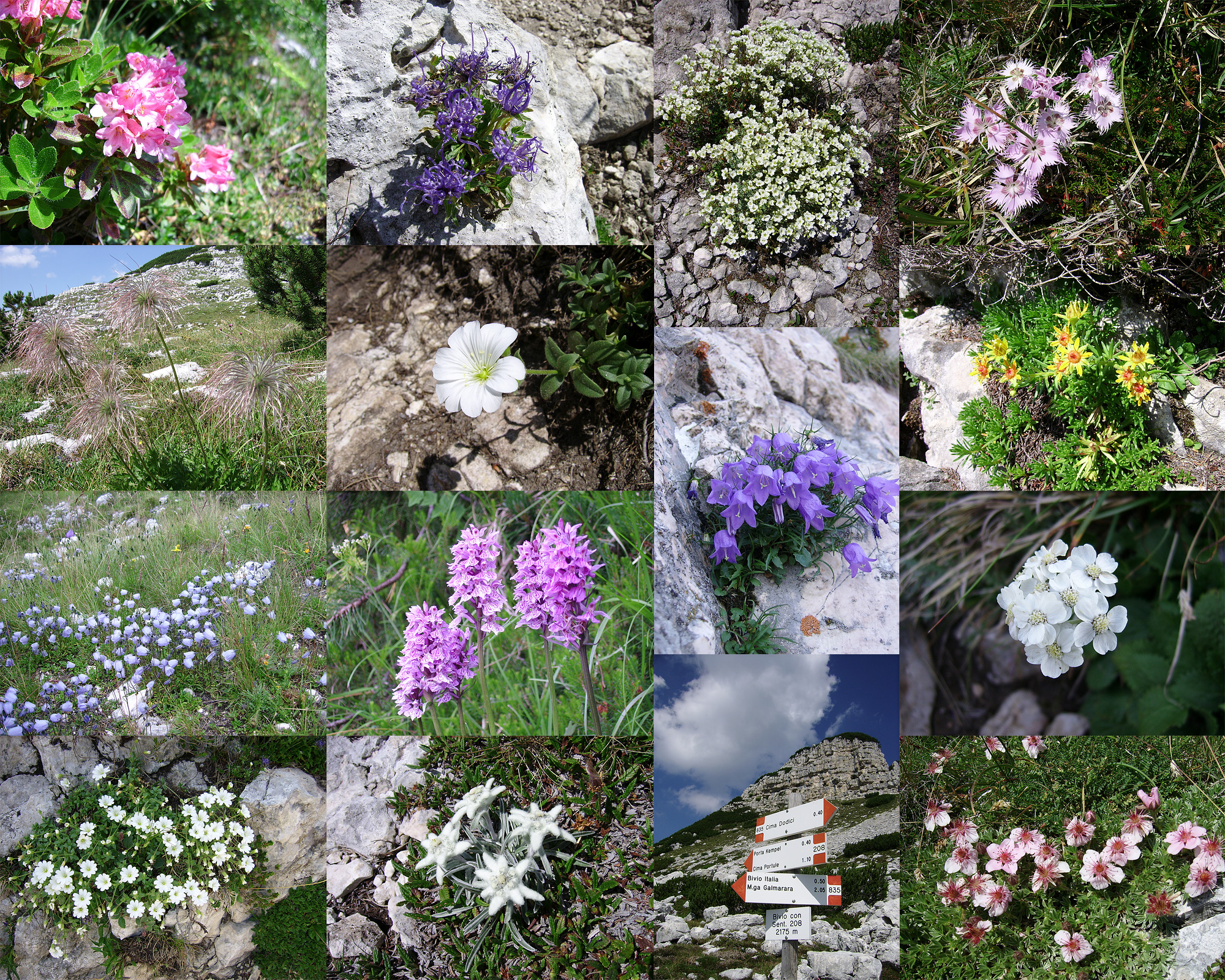 Alpine Flowers Asiago Plateau